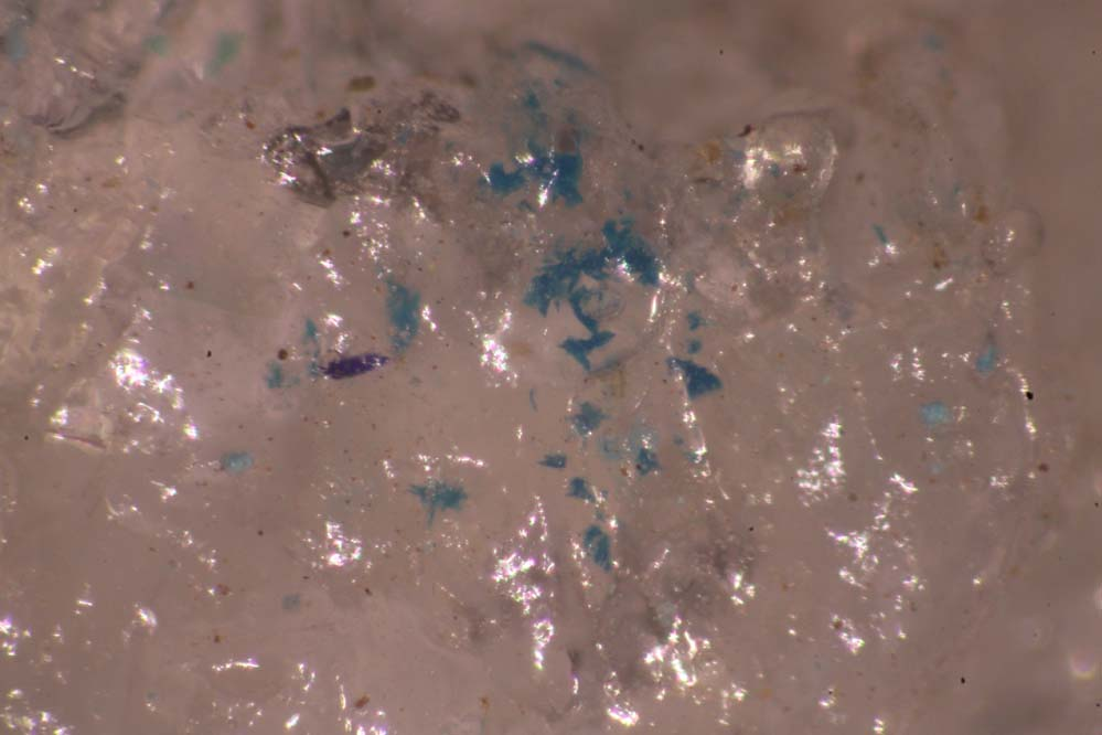 Shilovite is a new mineral from 2014 (IMA 2014-016) with an unusual composition, Cu(NH3)4(NO3)2, since it contains ammine groups, that is very unusual in minerals. It occurs in this specimen as violet microcrystals associated to majoritary sky blue ammineite (another new mineral with also ammine groups, IMA 2008-032) in a matrix of halite. From: Pabellon de Pica, Chanabaya, Iquique Province, Tarapacá Region, Chile.